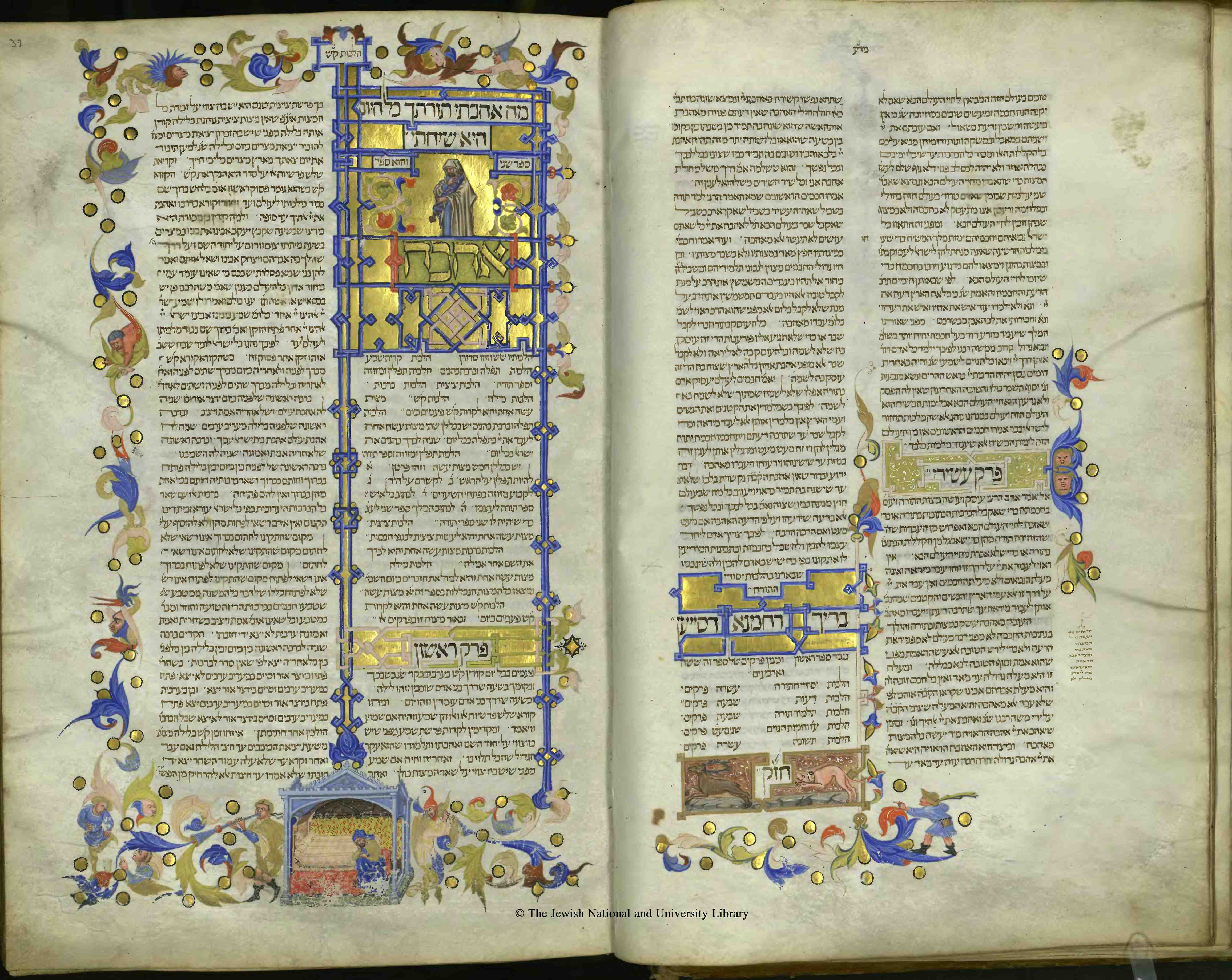 Mishneh Torah (Maimonides, 1180), copied in Spain, illuminated in Perugia, c. 1400 (Elie Kedouri, The Jewish World, 1979, p. 193). Illuminated Hebrew manuscript. Jerusalem, Jewish National and University Library of Israel, MS. HEB. 4*1193. "A typical decorated opening page for the "Book of Love [of God]." The illustration on the top initial-word panel shows a man embracing a Torah scroll. In the lower margin another man is reciting the shema before going to bed. This is one of the most sumptuous manuscripts of the Mishneh Torah. In the absence of colophon, it can be inferred from the script that the manuscript was copied either in Spain or southern France in the first half of the 14th century (in any case, before 1351, when the codex was sold in Avignon). The scribe's name was probably Isaac, since this name is decorated in several places in the text. The manuscript was illuminated in burnished gold and lively wash colors by a skilled non-Jewish artist of Perugia, Matteo di Ser Cambio" ("Illuminated Manuscripts" by Bezalel Narkiss, Encyclopedia Judaica, Jerusalem 1969).